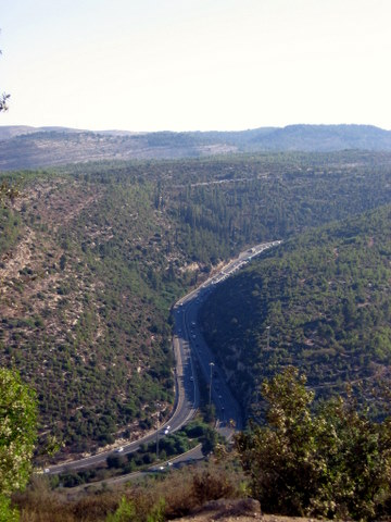 road1